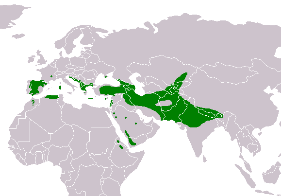 Distribution of Gyps fulvus nesting area resident all year wintering area